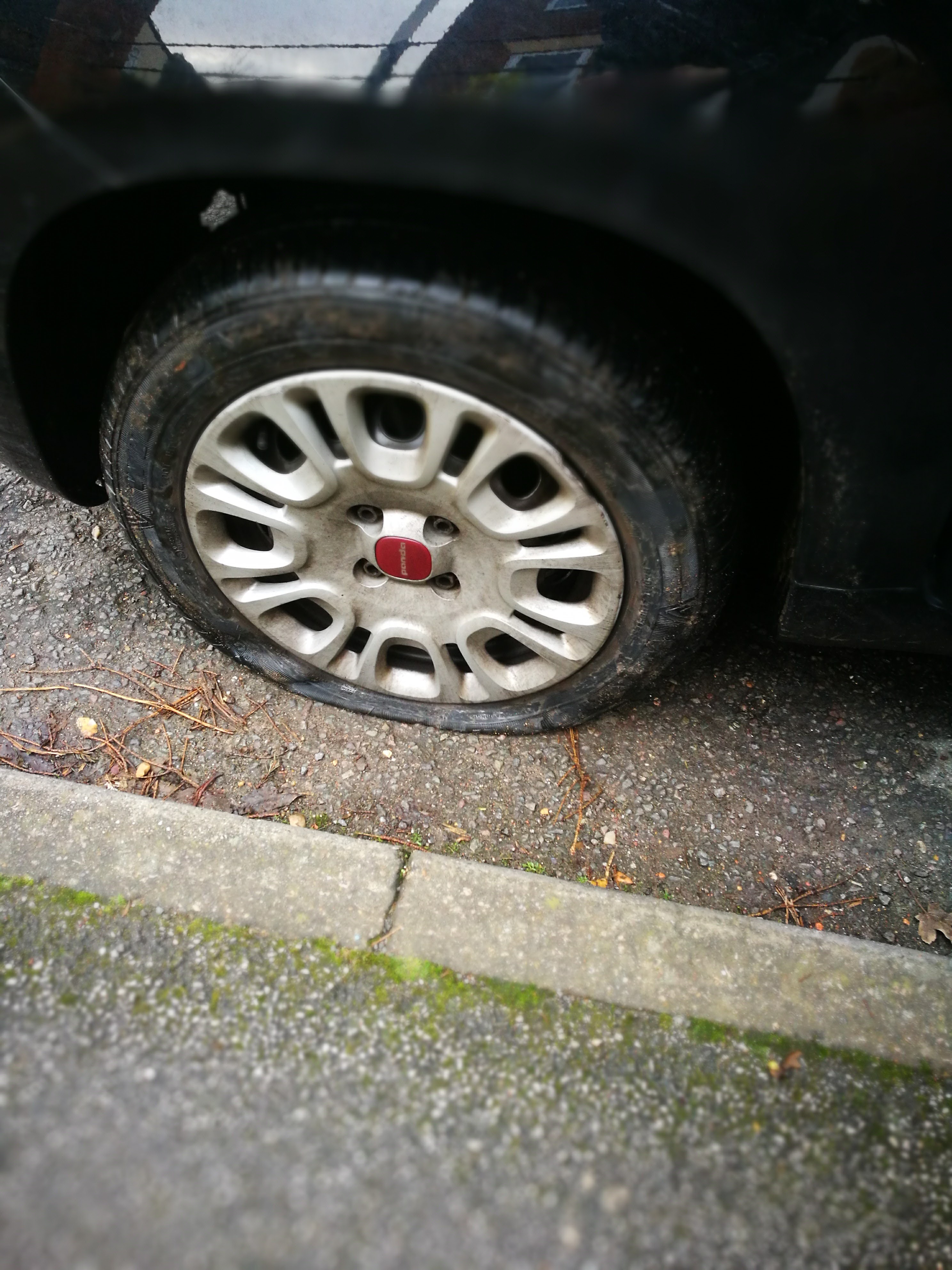 What a bummer